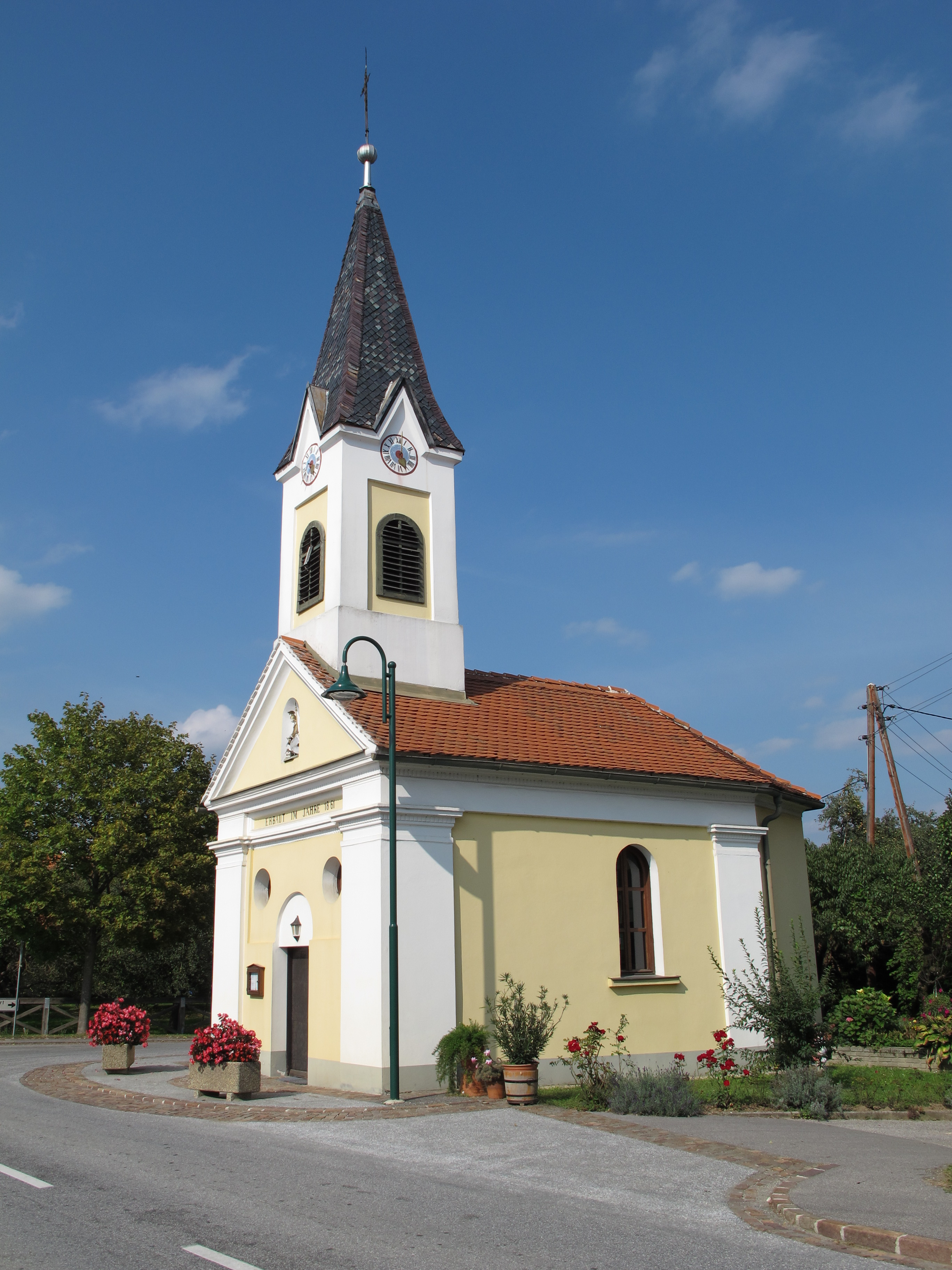 Ortskapelle Kroisbach St. Florian